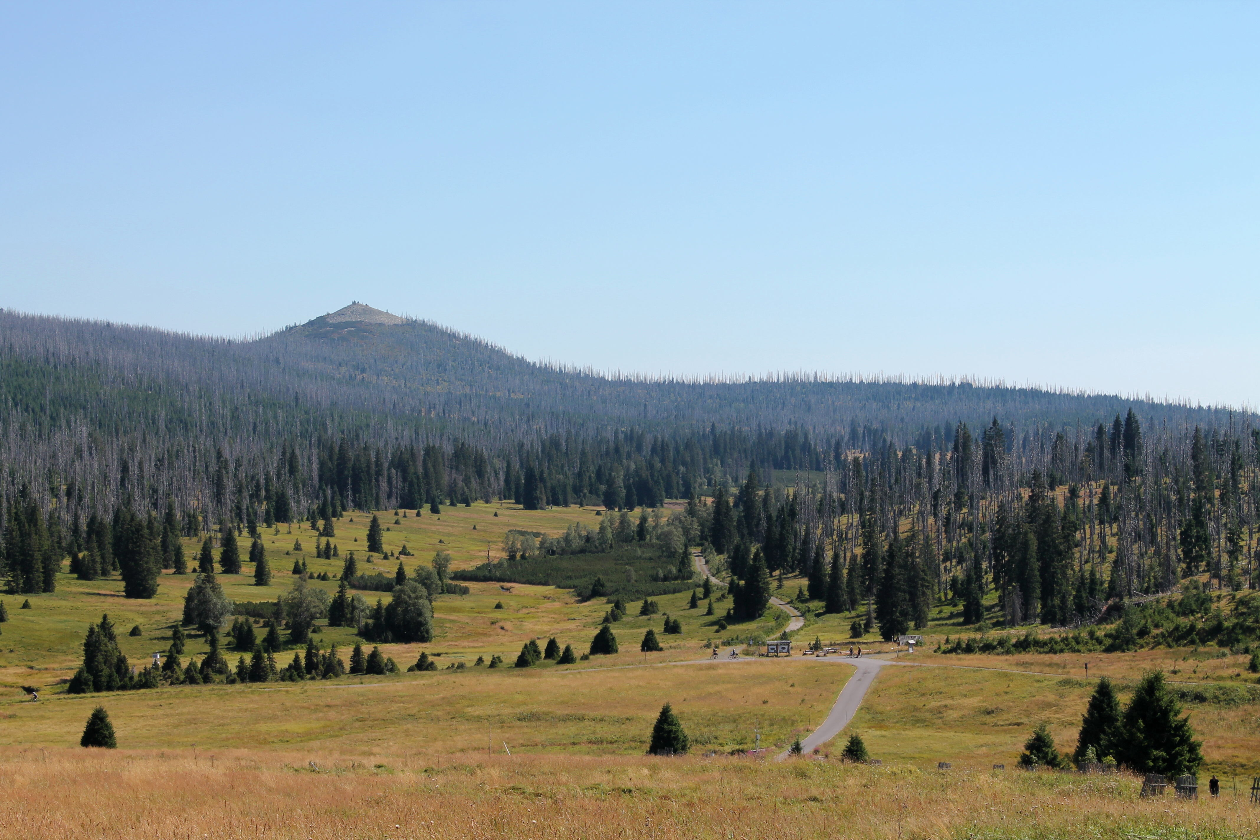 Lusen and Lusen Valley, Modrava, Klatovy District, Czech Republic - Google Maps - Google Earth